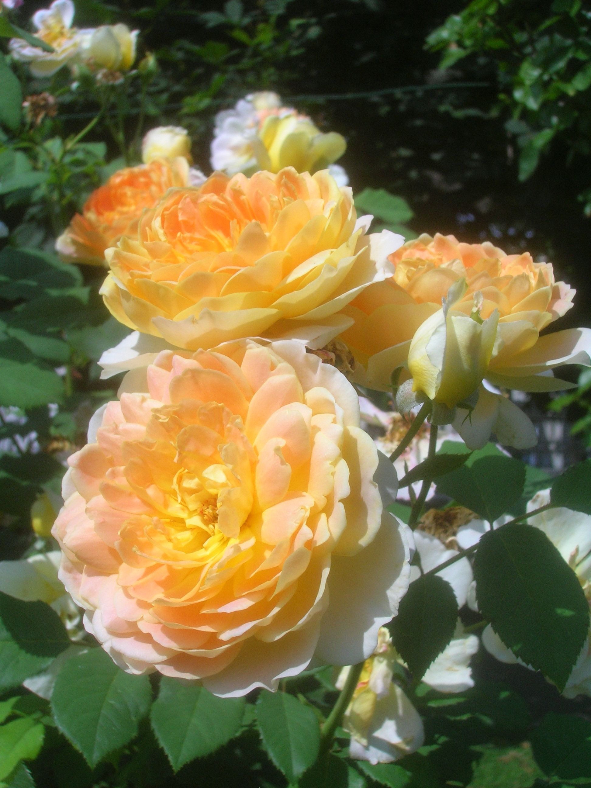 Rosa 'Molineux' in the Volksgarten in Vienna. Identified by sign.